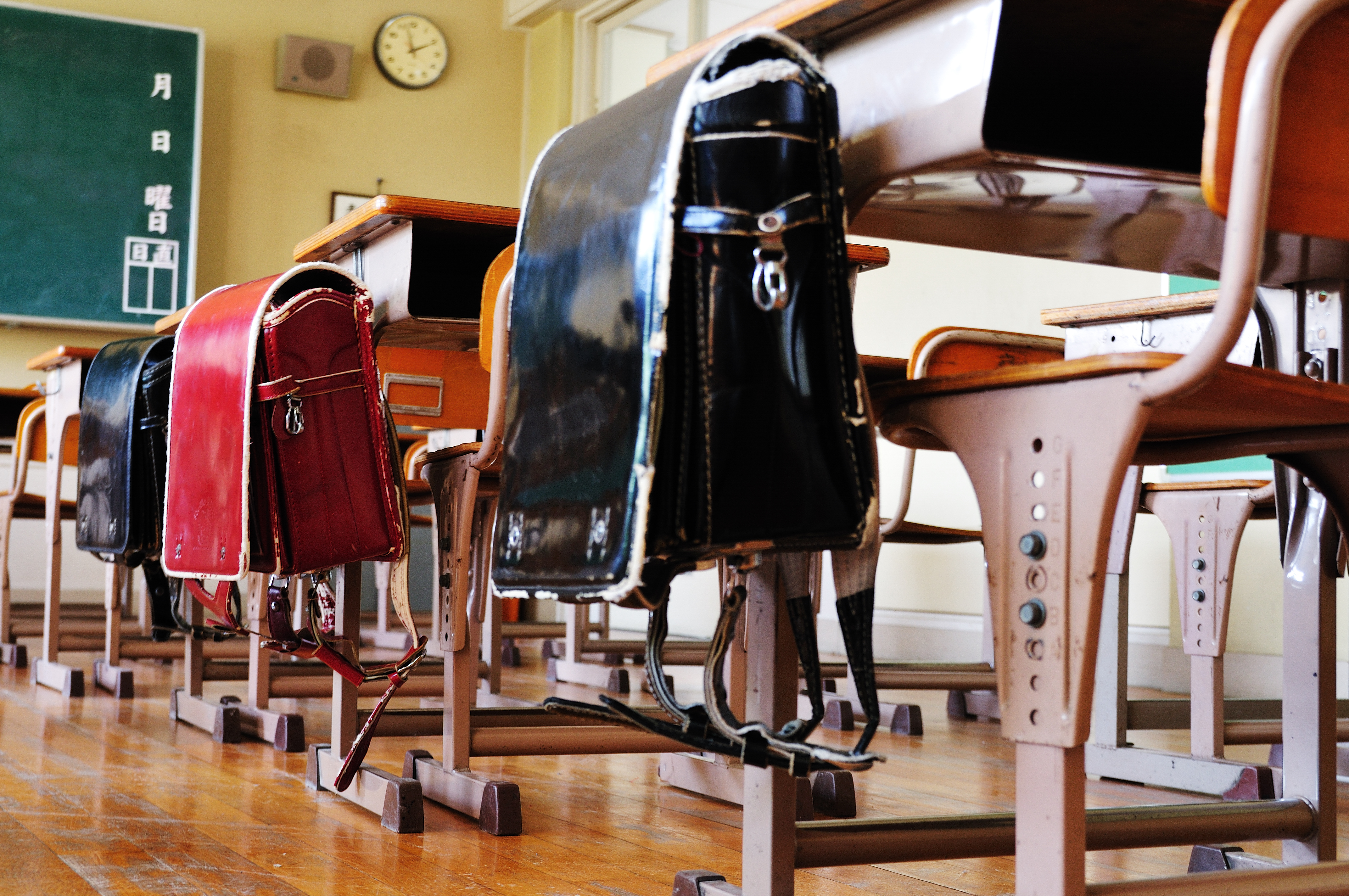 Heiwa elementary school %u5E73%u548C%u5C0F%u5B66%u6821 _16